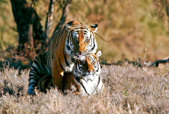 Two tigers mating.